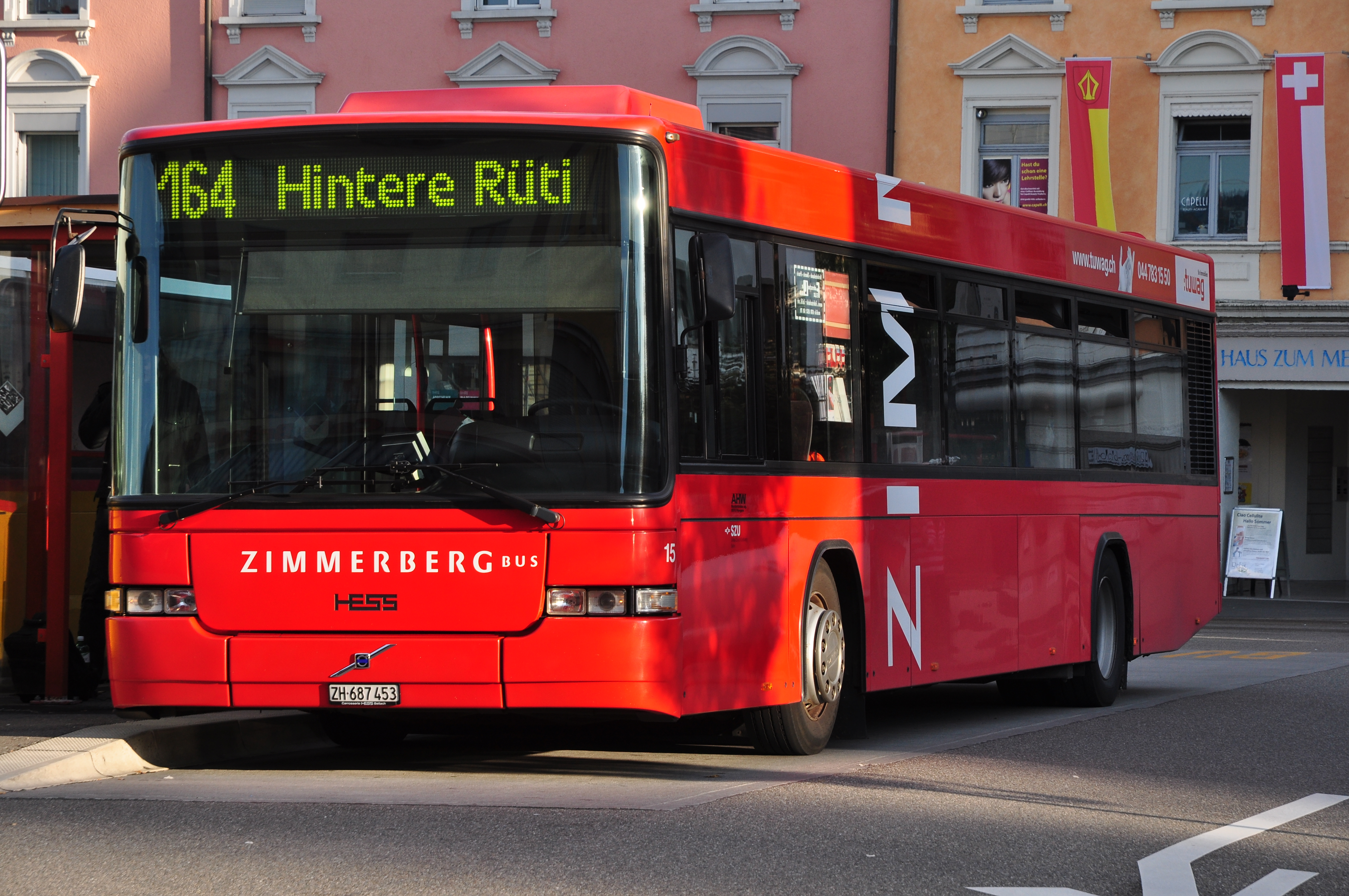 Bus of the Zimmerberg bus line at the train station in Wädenswil (Switzerland)